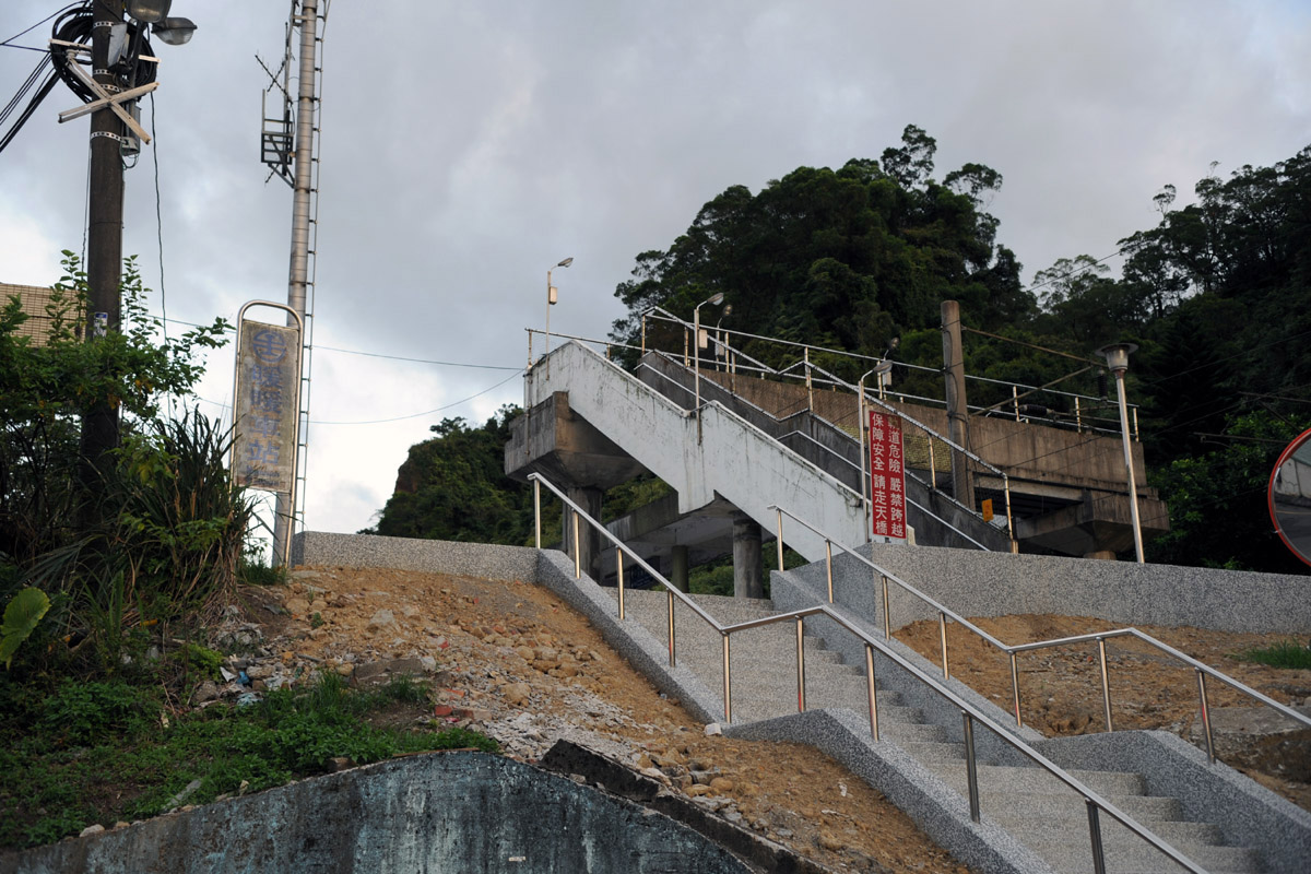 Taiwan Railway Administration NuanNuan Station